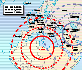 Threat Ranges from Middle East Missiles. Note: Illustrating where libya or Iran to acquire the No-Dong 1 (1,000 km), TD-1 (2,000 km) or TD-2 (3,000 km) missiles. The likelihood that U.S. forces will often operate as part of a coalition raises questions about the possible political and military impact of NBC weapons on coalition cohesion. In the event of an NBC threat, it will not be sufficient for U.S. forces alone to have adequate protective equipment. An adversary might exploit gaps in the passive-defense capabilities of coalition partners, thereby undermining coalition cohesion and posing acute problems for political leaders and military commanders alike. Furthermore, in some situations, the issue of protection for civilians could become important--not just politically but also operationally. In many instances, for example, a largely civilian work force will be needed to maintain capabilities at ports and airfields. The absence of adequate personal protection for civilian workers will result in a degradation of operational capabilities, and may lead to deterioration in the political climate.